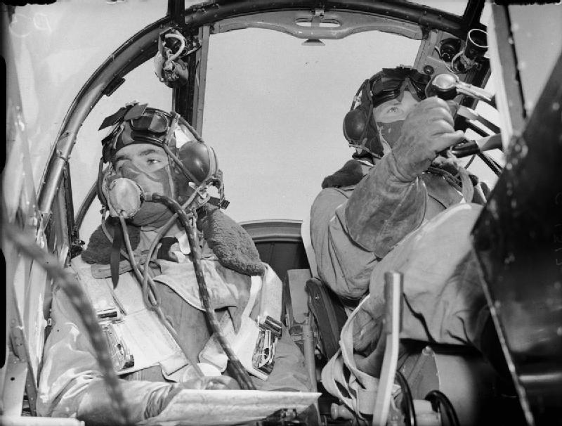 Royal Air Force- France, 1939-1940. A pilot and navigator of No. 139 Squadron RAF, seated in the cockpit of their Bristol Blenheim Mark IV at Plivot.